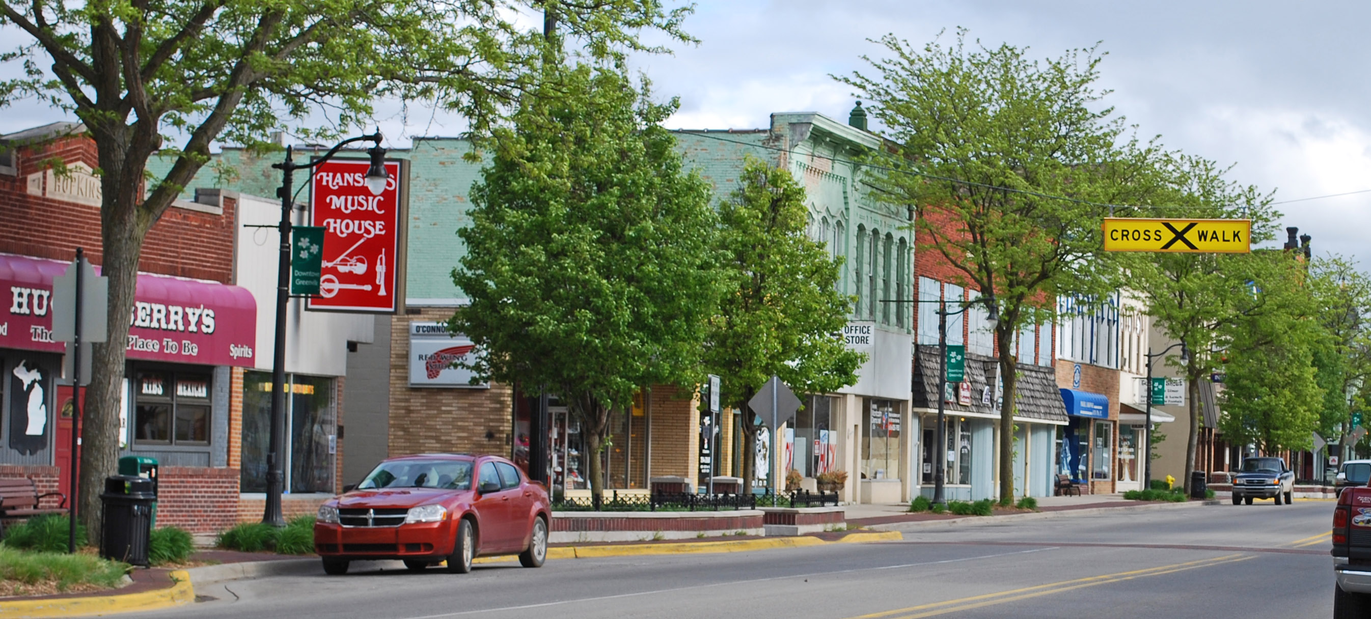 Greenville MI Downtown Historic District, taken from the Winter Inn